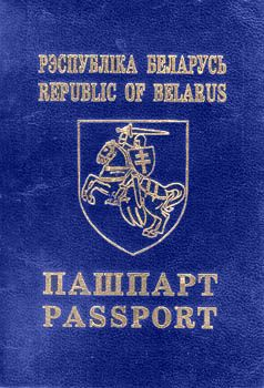 Former Belarusian Passport